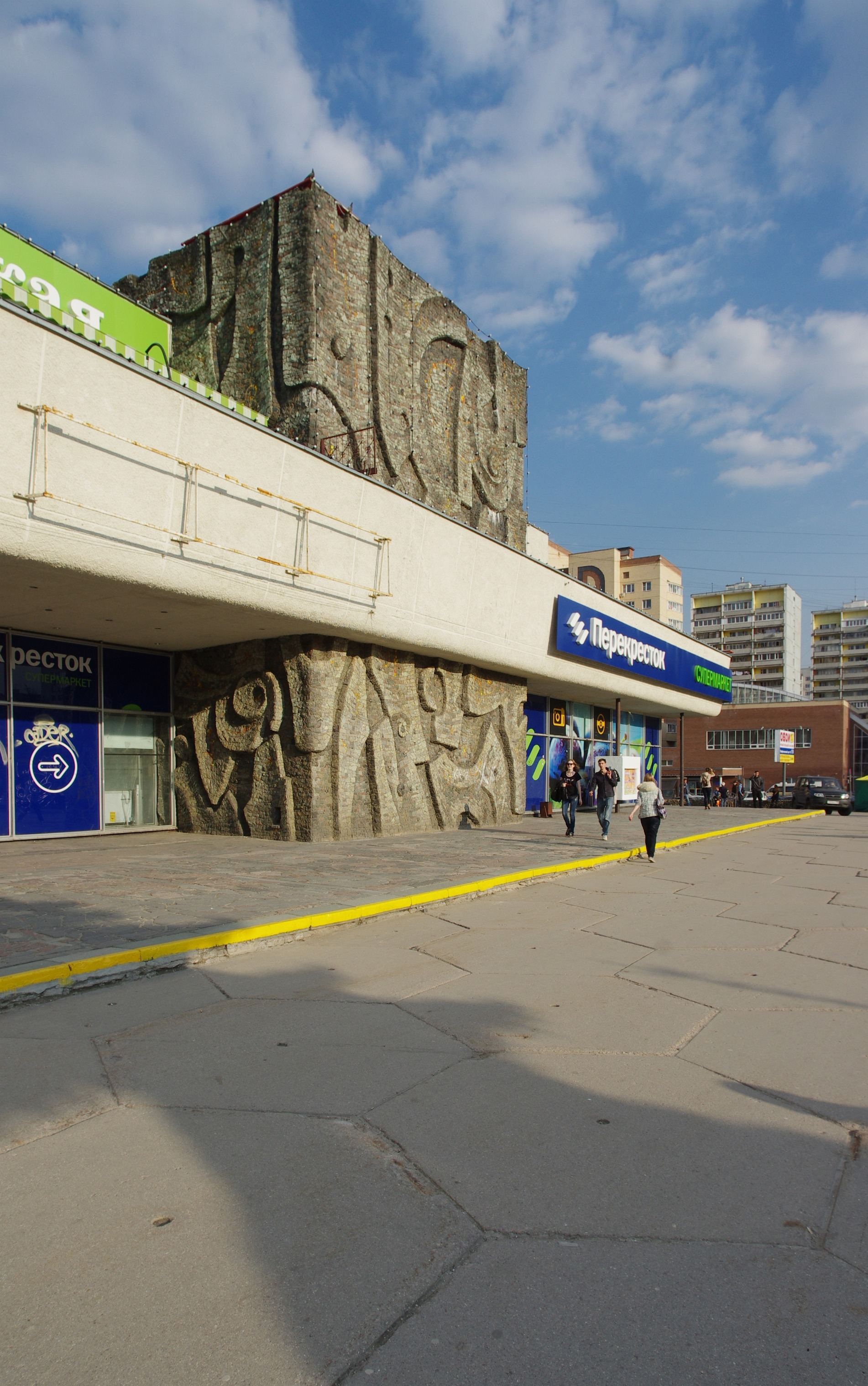 See georeference